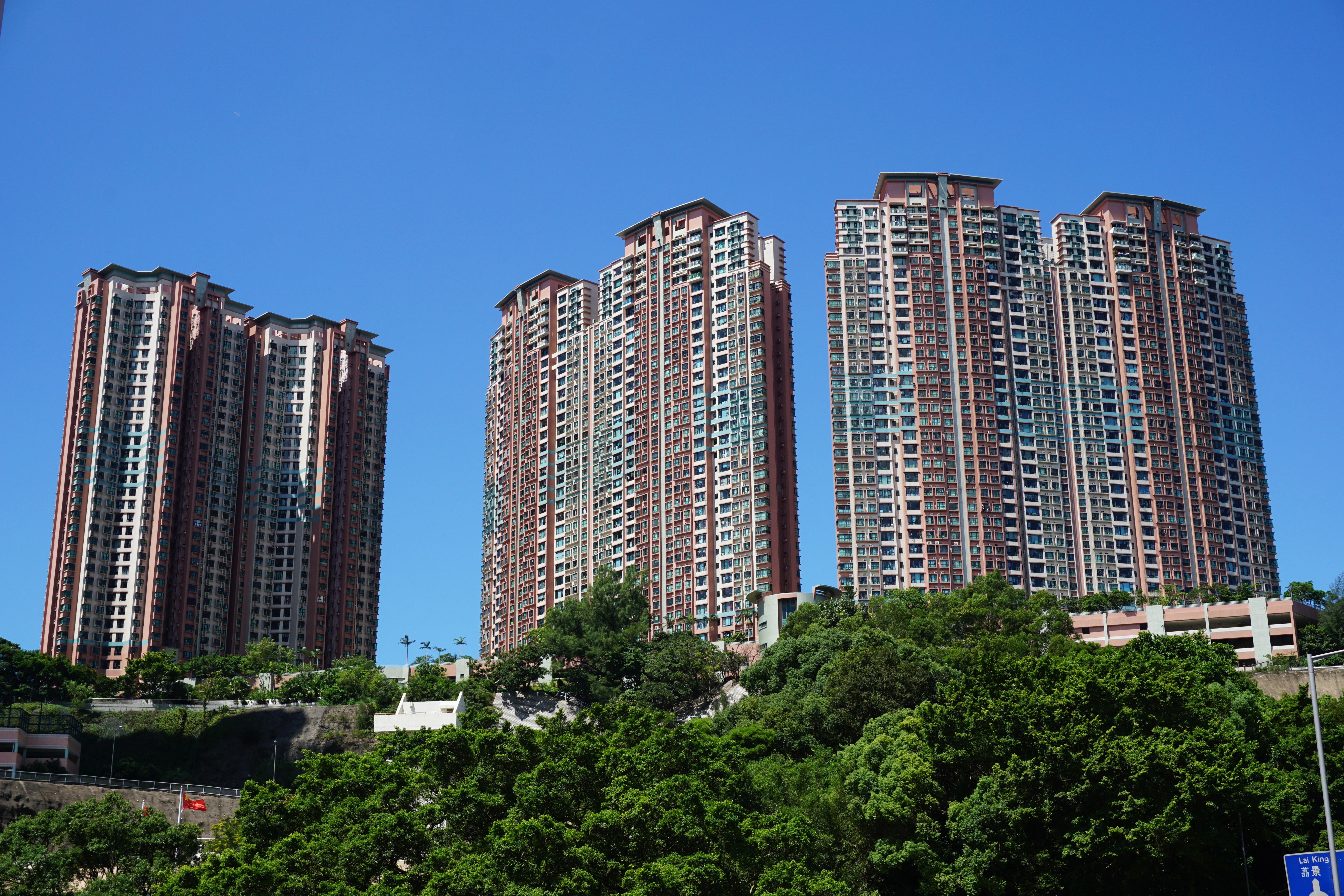 Highland Park in Lai King, Hong Kong.